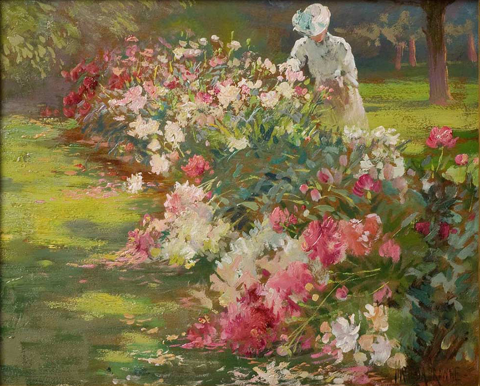 A woman in a white-and-blue hat and mostly white dress bending over a bank of white, pink and red peonies. Believed to be set in the garden of Katharine Ludington of Lyme, Connecticut, USA.